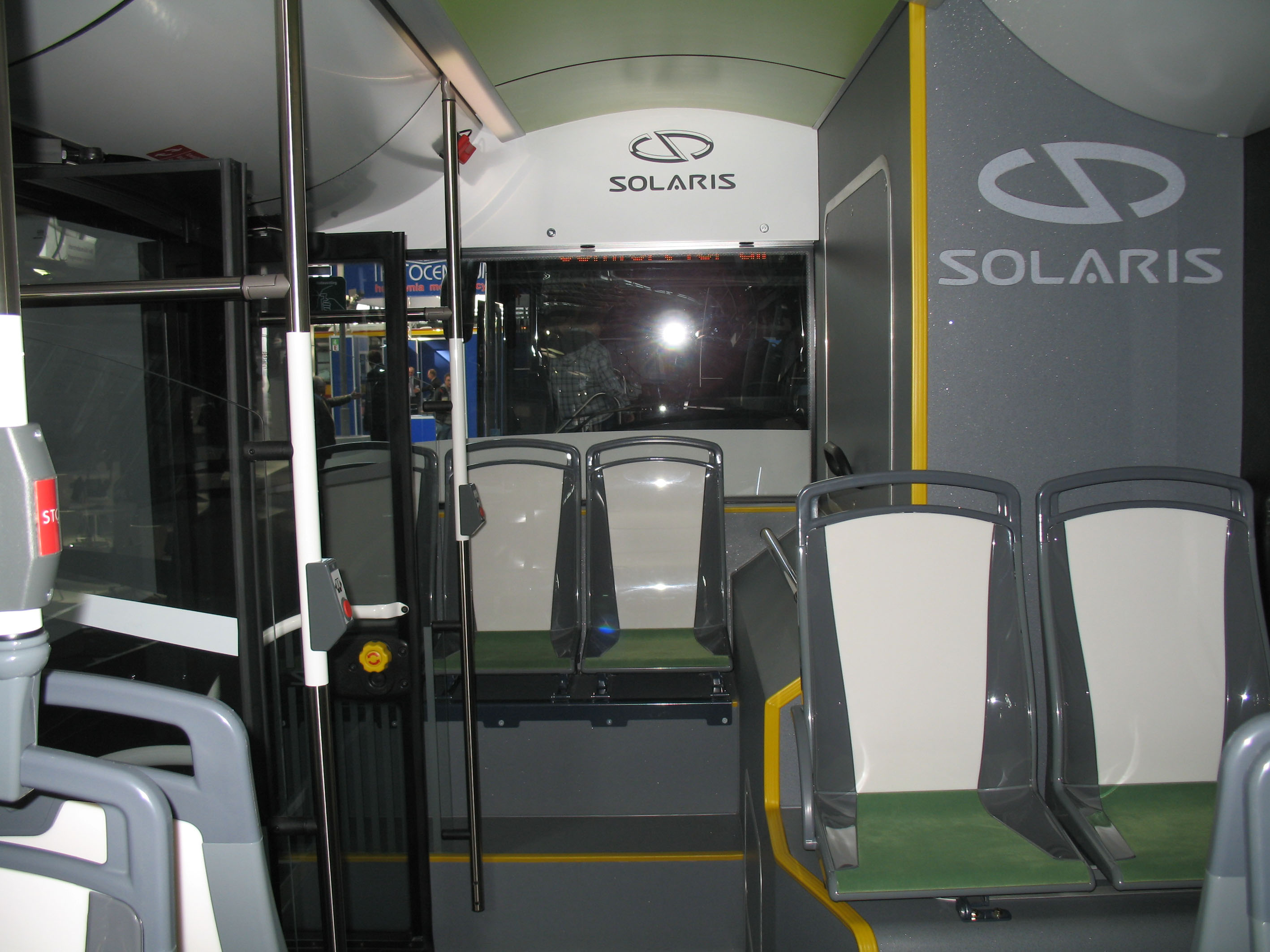 Solaris Urbino 18 Hybrid Vossloh Kiepe city bus interior in Kielce, Poland. Built 2010. Transexpo 2010.